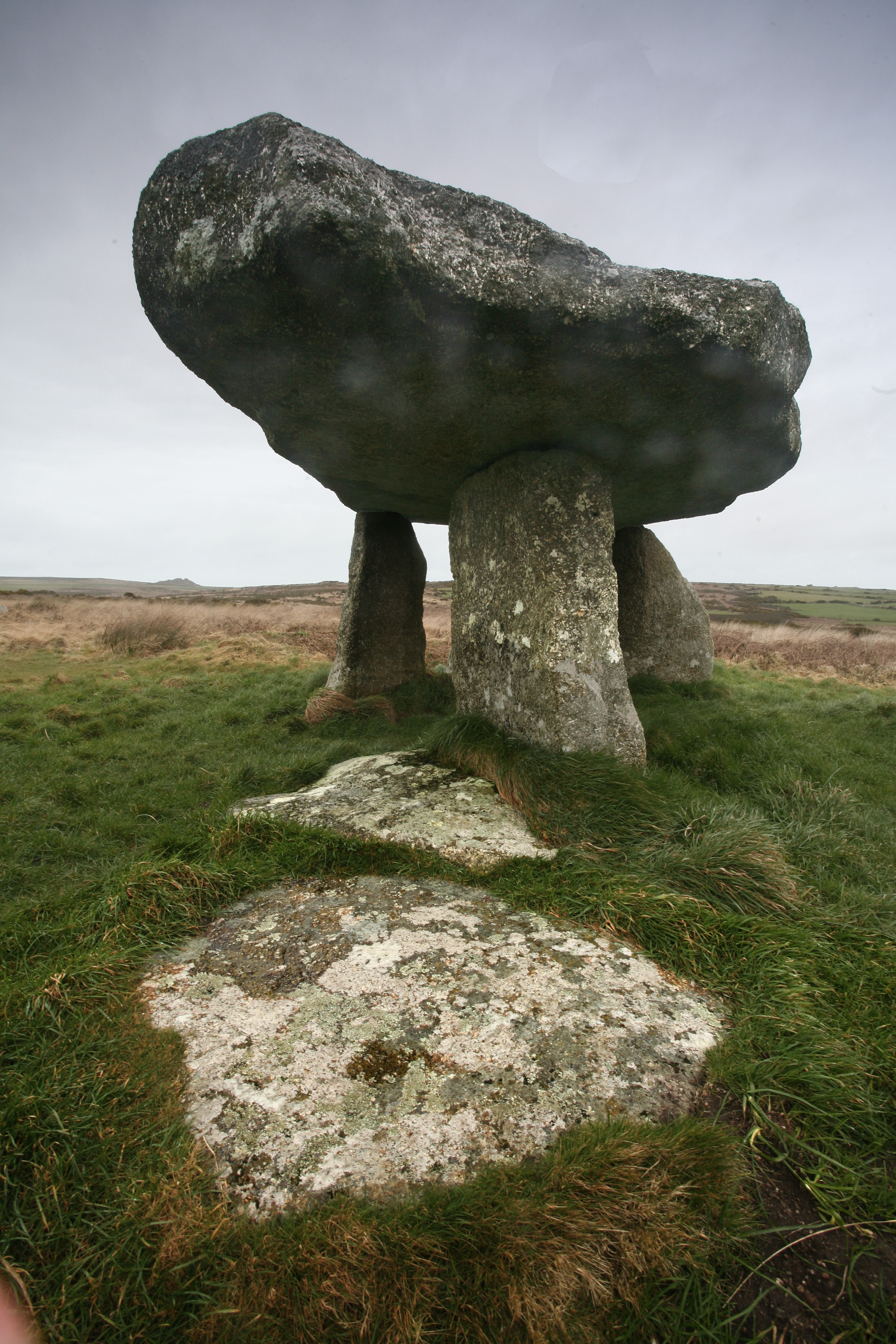 Lanyon Quoit from the south east